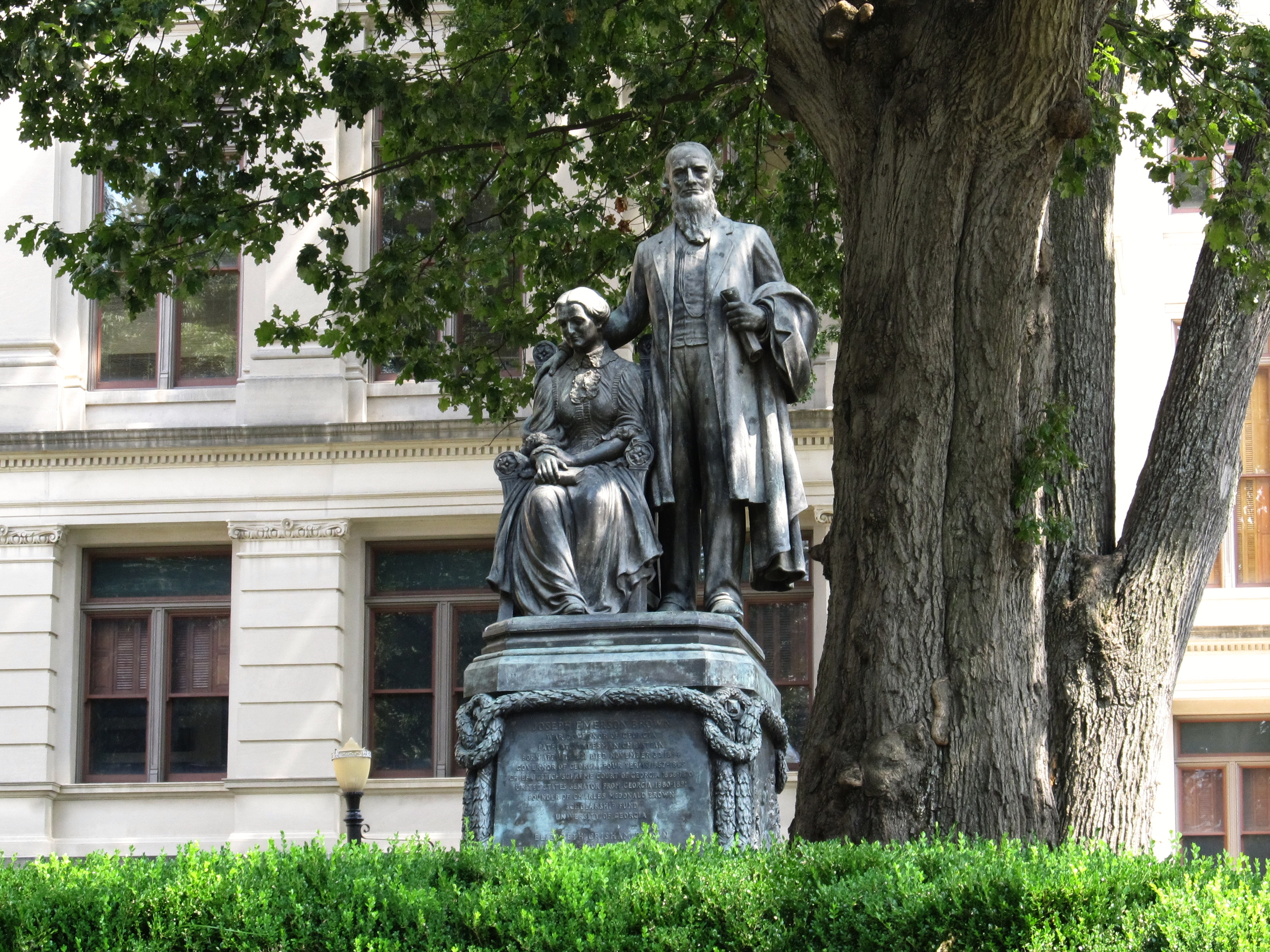 Statue of Georgia Civil War governor Joseph E. Brown and his wife--said to be of the few husband-and-wife statues in the world. It is located on southwest corner of the Georgia state capitol square. Joseph Emerson Brown (April 15, 1821 – November 30, 1894), often referred to as Joe Brown, was the 42nd Governor of Georgia from 1857 to 1865, and a U.S. Senator from 1880 to 1891. Governor Brown was a leading secessionist in 1861, taking his state out of the Union and into the Confederacy. A former Whig, and a firm believer in state's rights, he defied the national government's wartime policies. He resisted the Confederate military draft, and tried to keep as many soldiers at home as possible (to fight off invaders, he said). He denounced Confederate President Jefferson Davis as an incipient tyrant. Brown challenged Confederate impressment of animals, goods, and slaves. Several other governors followed his lead.